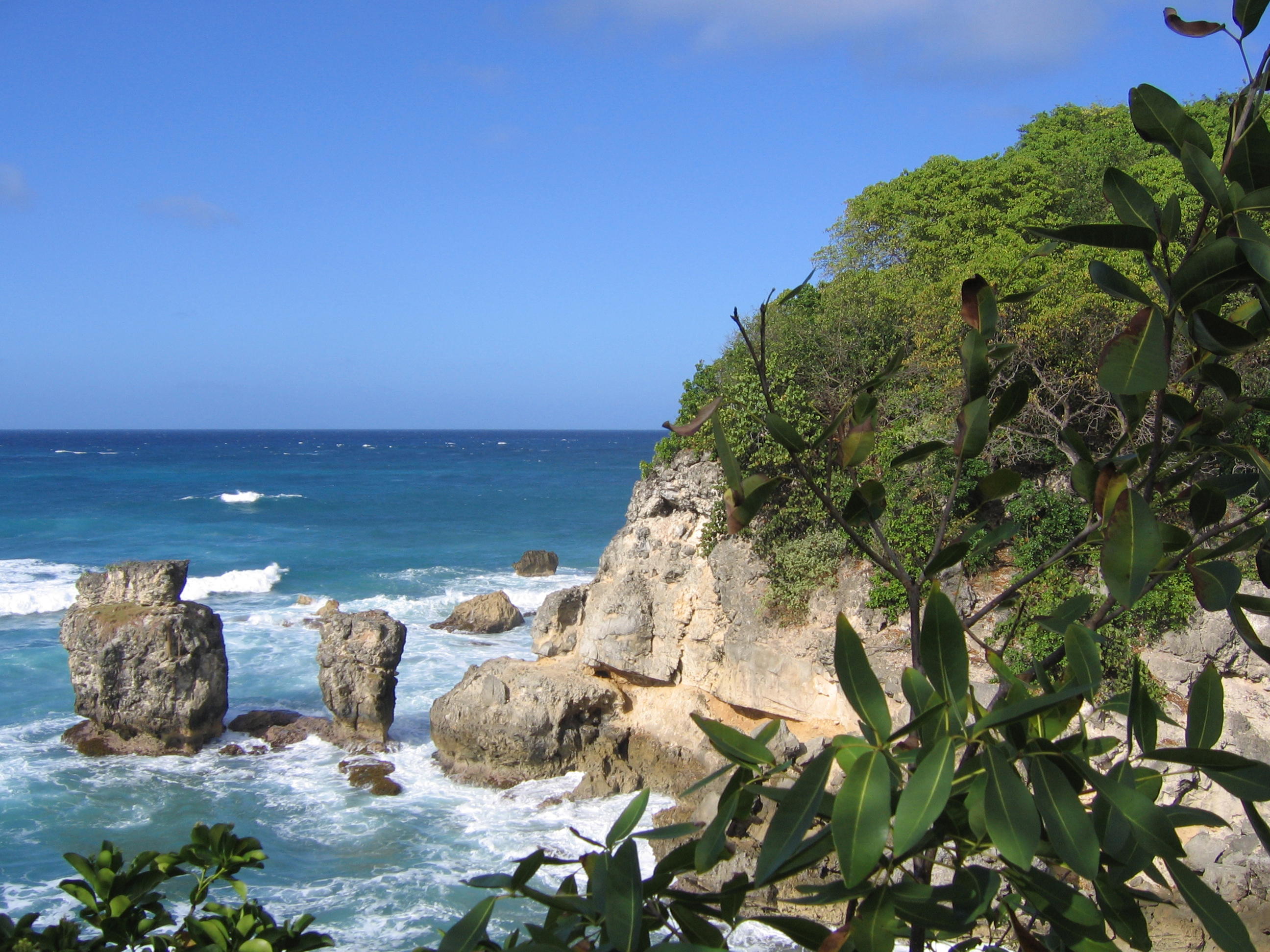 Archer's Bay, Saint Lucy, Barbados.